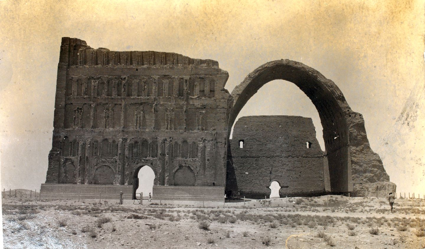 Ctesiphon Arch.